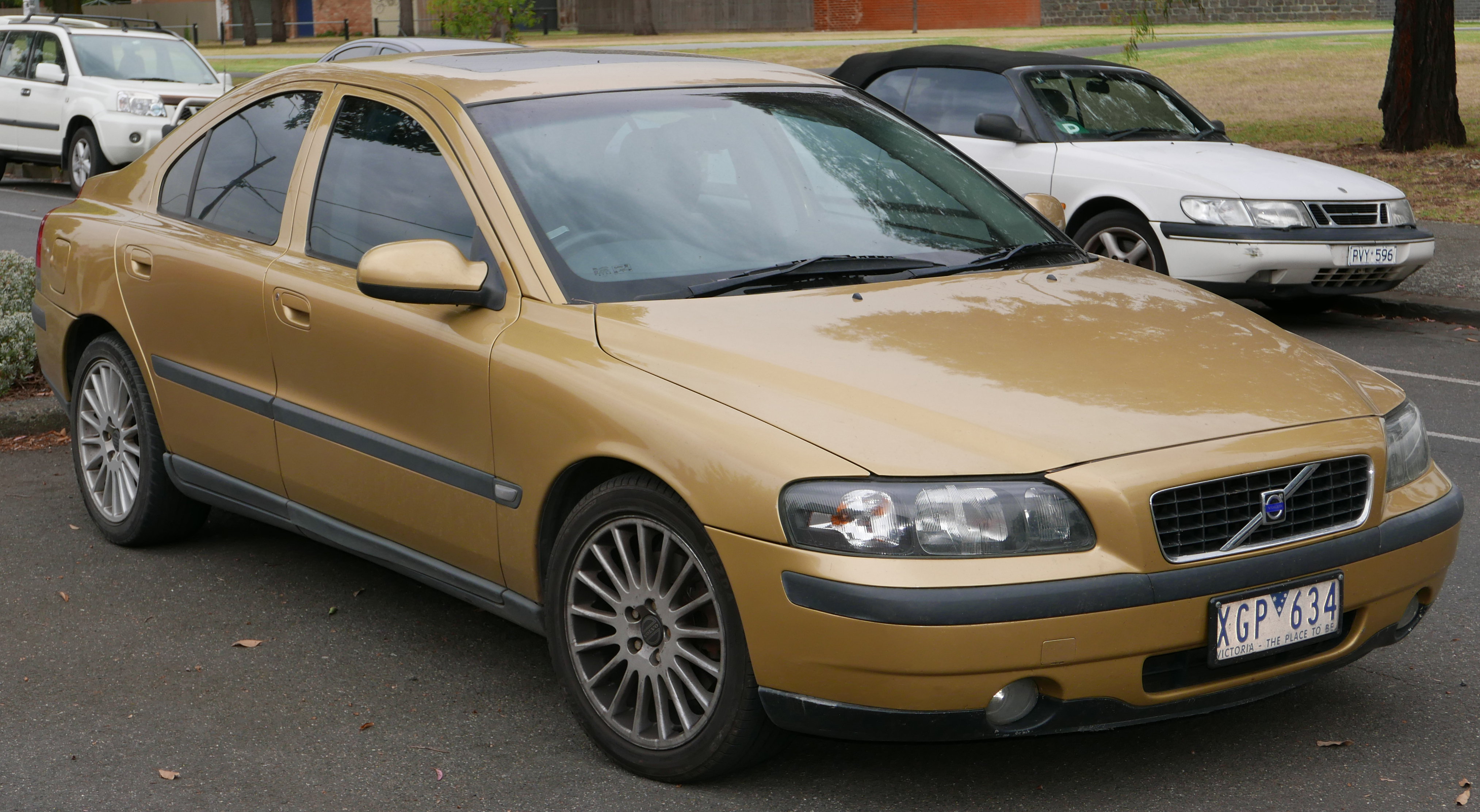 2001 Volvo S60 (MY01) 2.4 T sedan. Photographed in Princes Hill, Victoria, Australia. Vehicle registration enquiry resultsJurisdictionVictoriaRegistrationXGP634Chassis codeYV1RS58K912083133Engine codeB5244T32541471Compliance date2001-10Year of manufacture2001